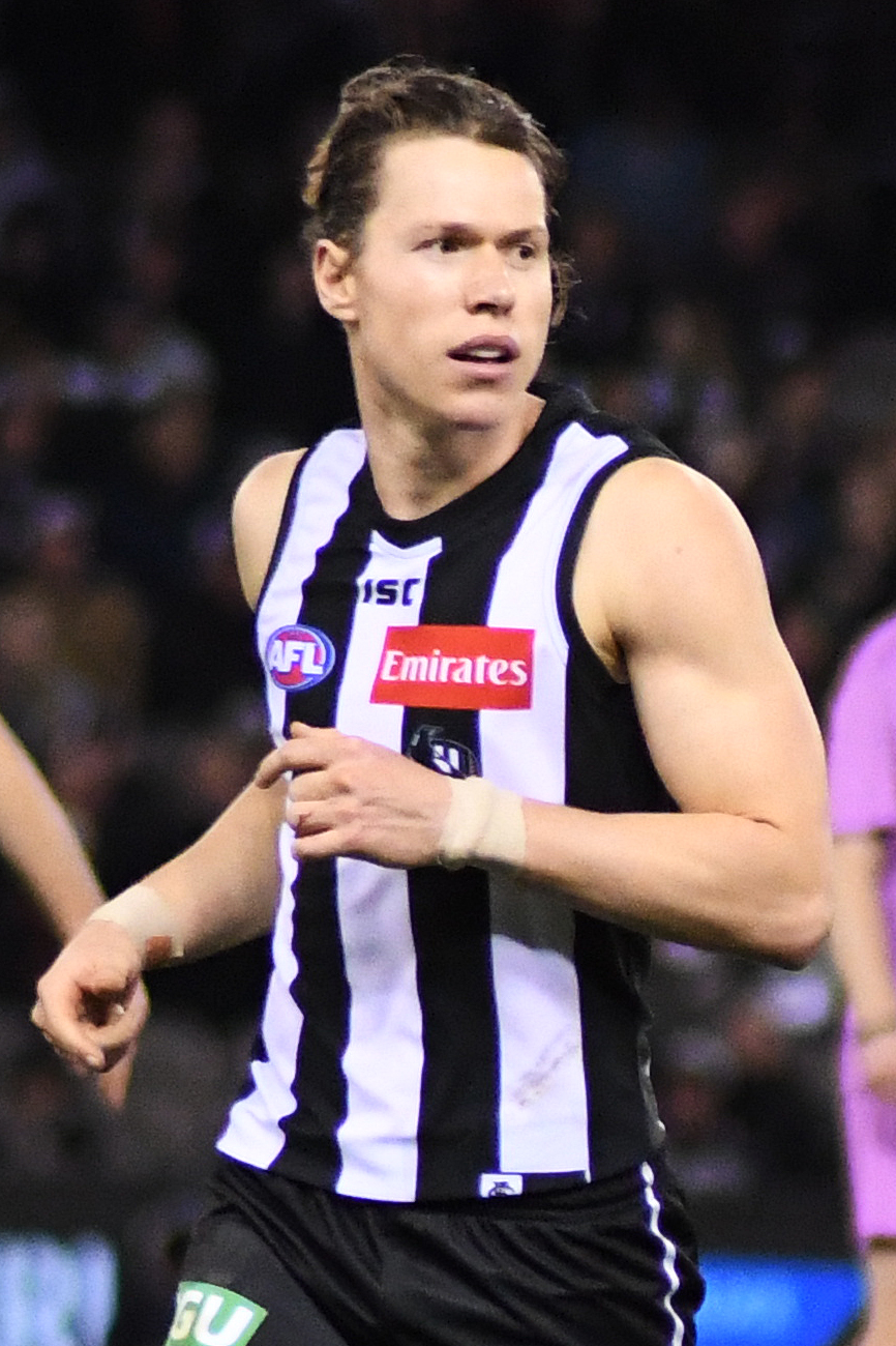 Tom Langdon of Collingwood during the 2018 AFL round 21 match between Collingwood and Brisbane at Etihad Stadium on Saturday, 11 August 2018 in Melbourne, Victoria.